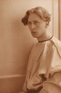 Percy Grainger by Adolf de Meyer in 1903